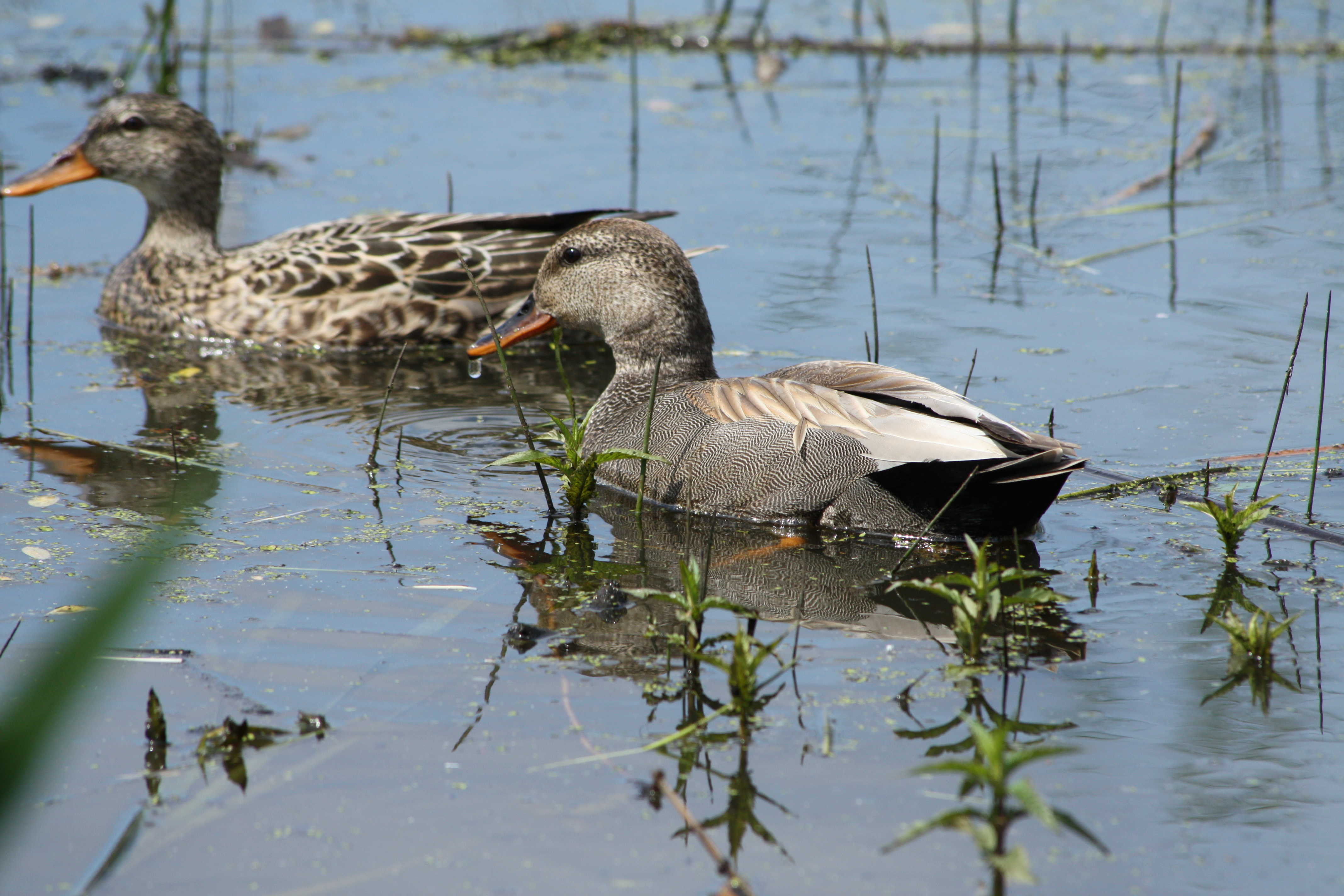 Gadwall male, female behind